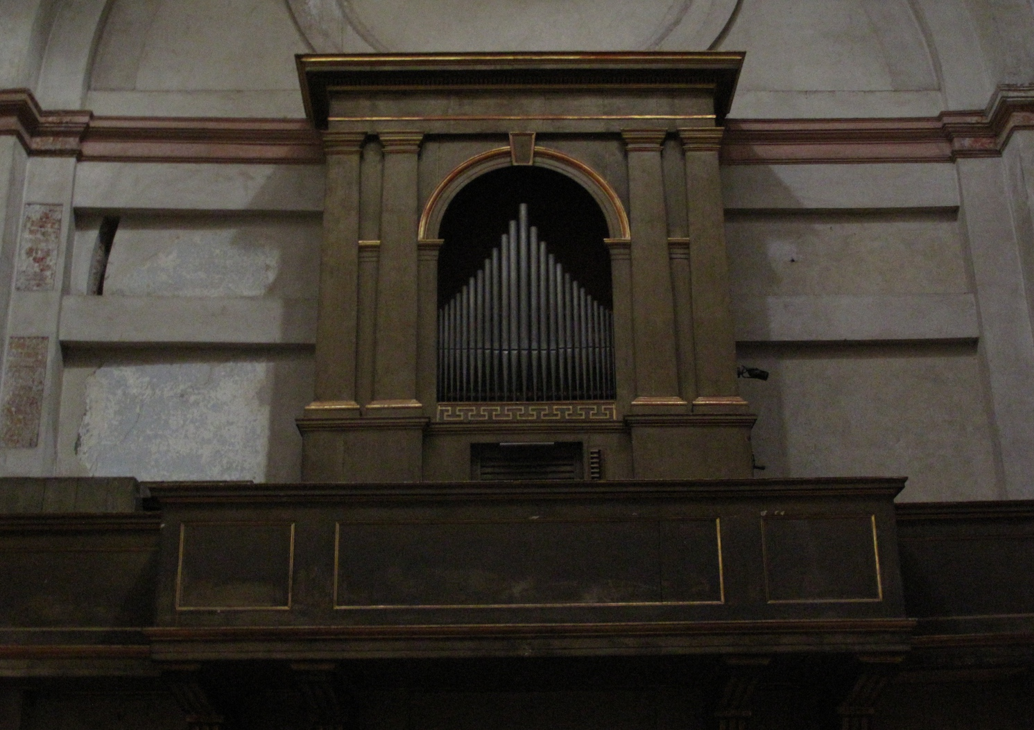 Saint Catherine of Alexandria chapel in San Nazaro Maggiore basilica in Milan. Organ (end 16th century)